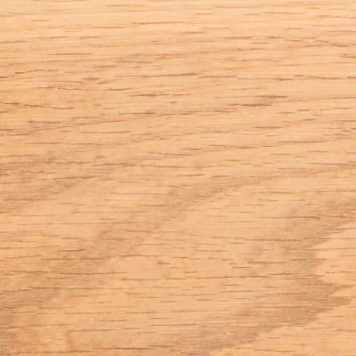 Quercus cerris